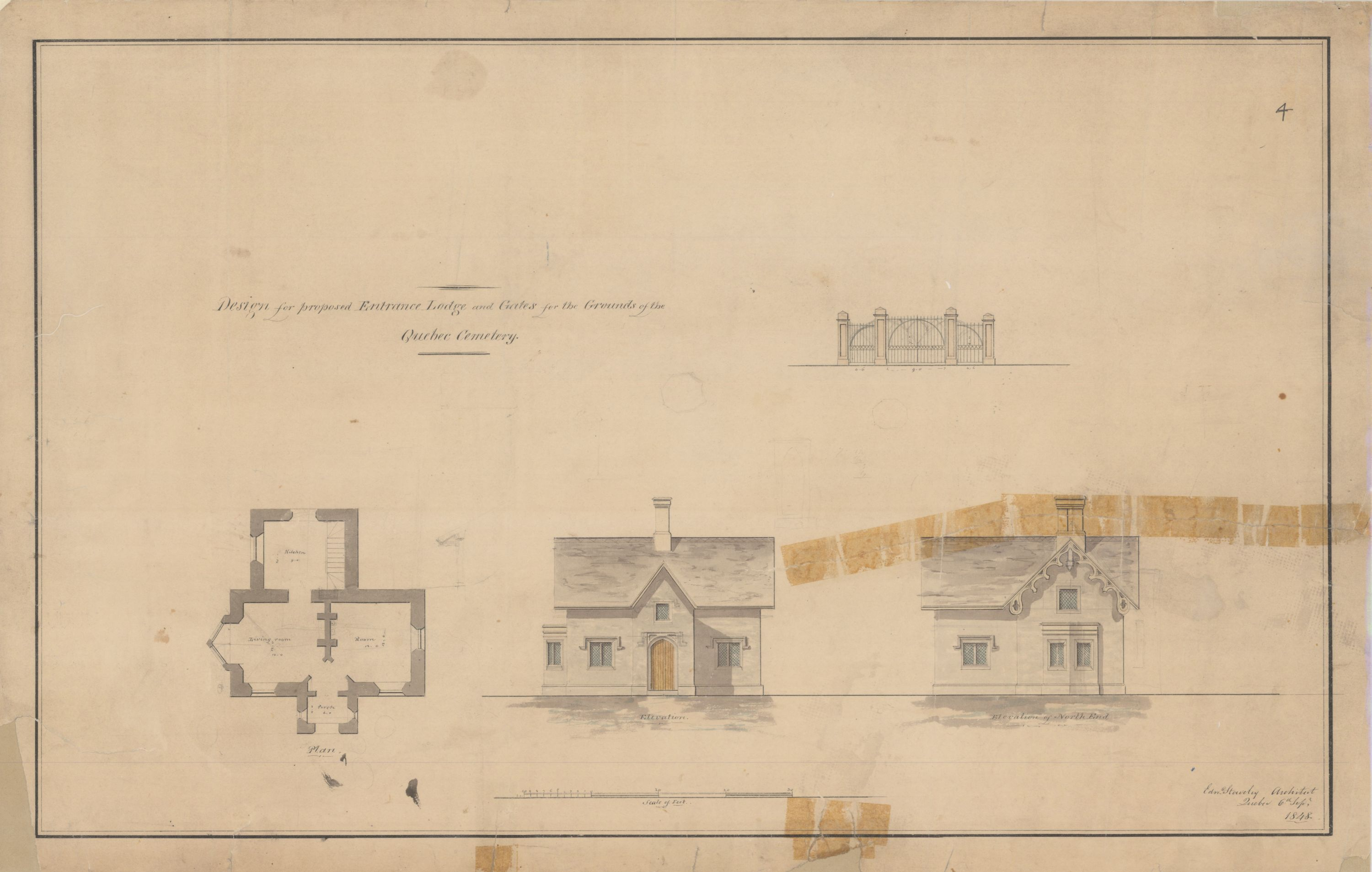 Design plans for Sillery's Mount Hermon Cemetery's entrance lodge and grounds' gates, by Quebec City architect Edward Staveley (1795-1872), dated September 6, 1848